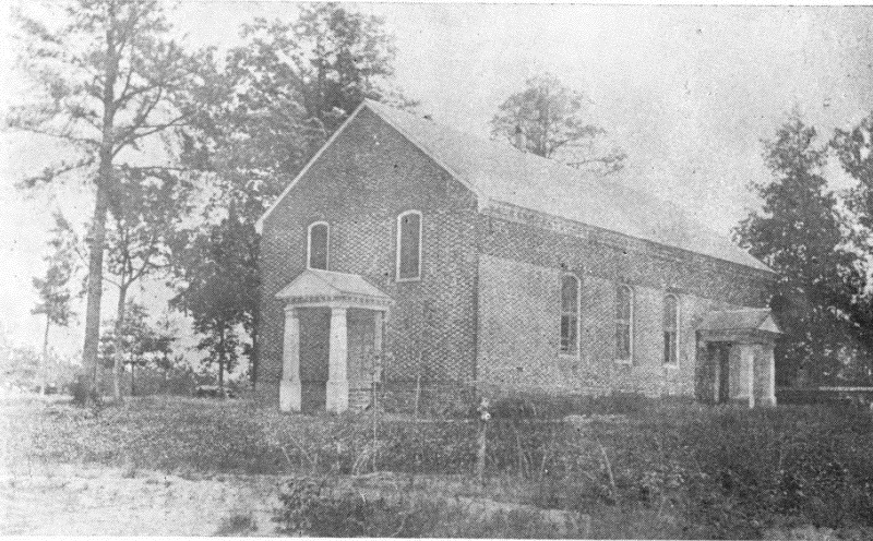 c. 1908. Actually St. Martin's, Doswell, but called Old Fork Chrch from its position in reference to the two forks of the Panumkey River.